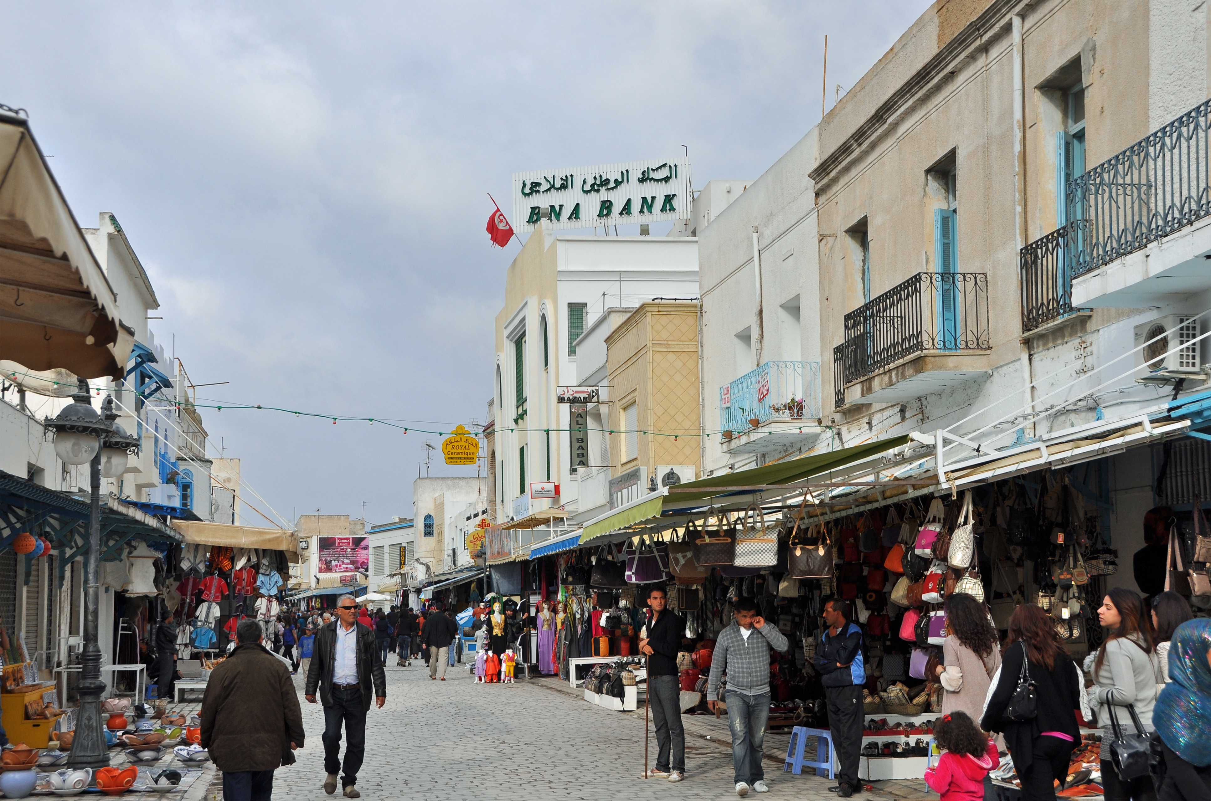 Nabeul (Tunisia): main street of the old town